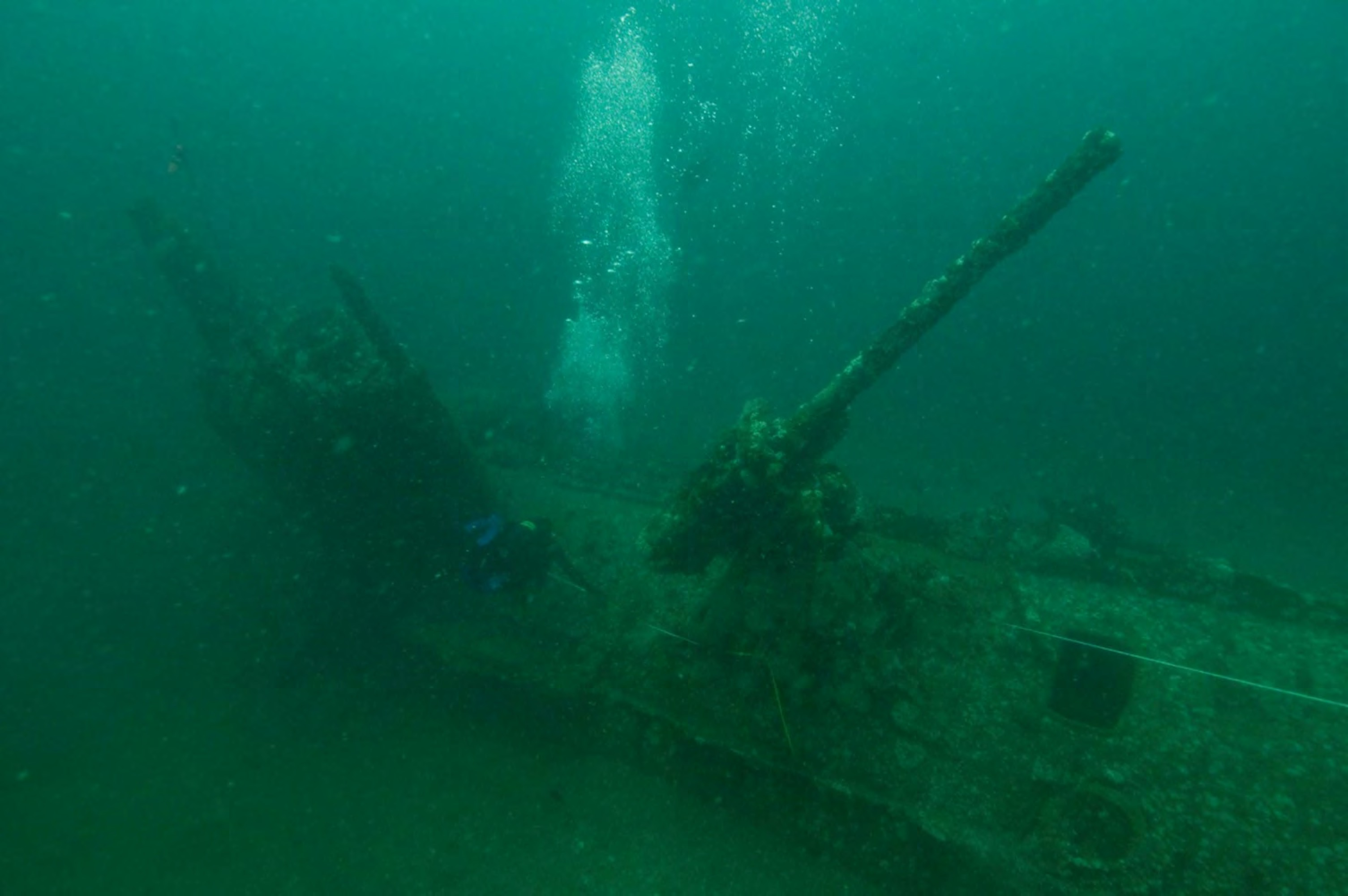 Deck gun of the wreck of German submarine U-85, sunk April 14, 1942, off of North Carolina.